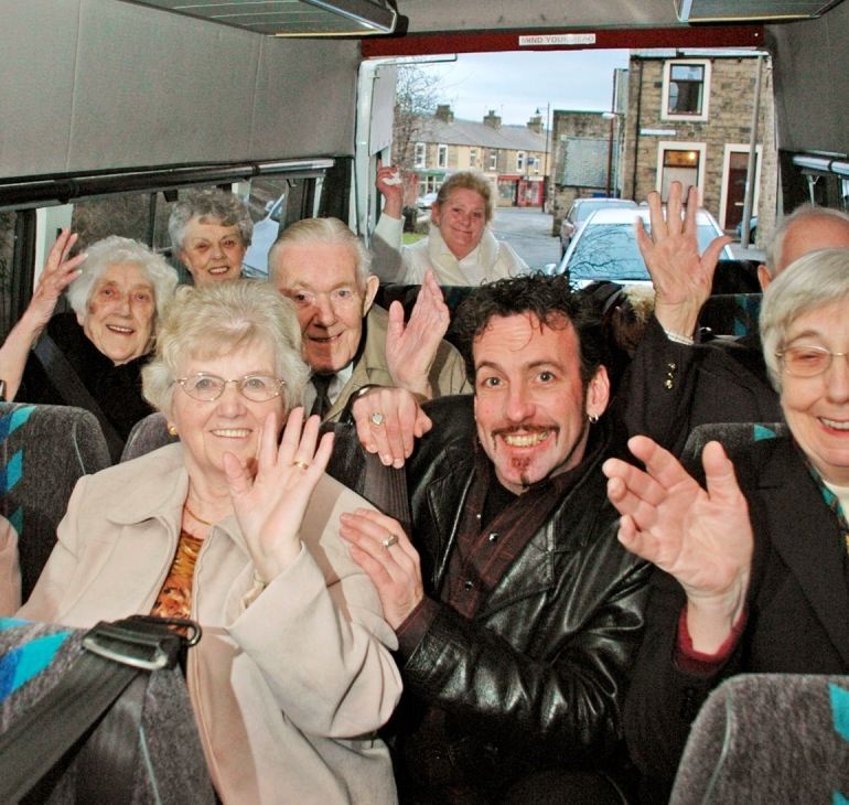 The Wonderbus is a Registered Charity, set up by Paul Zenon, which takes older people on days out to shows and events.